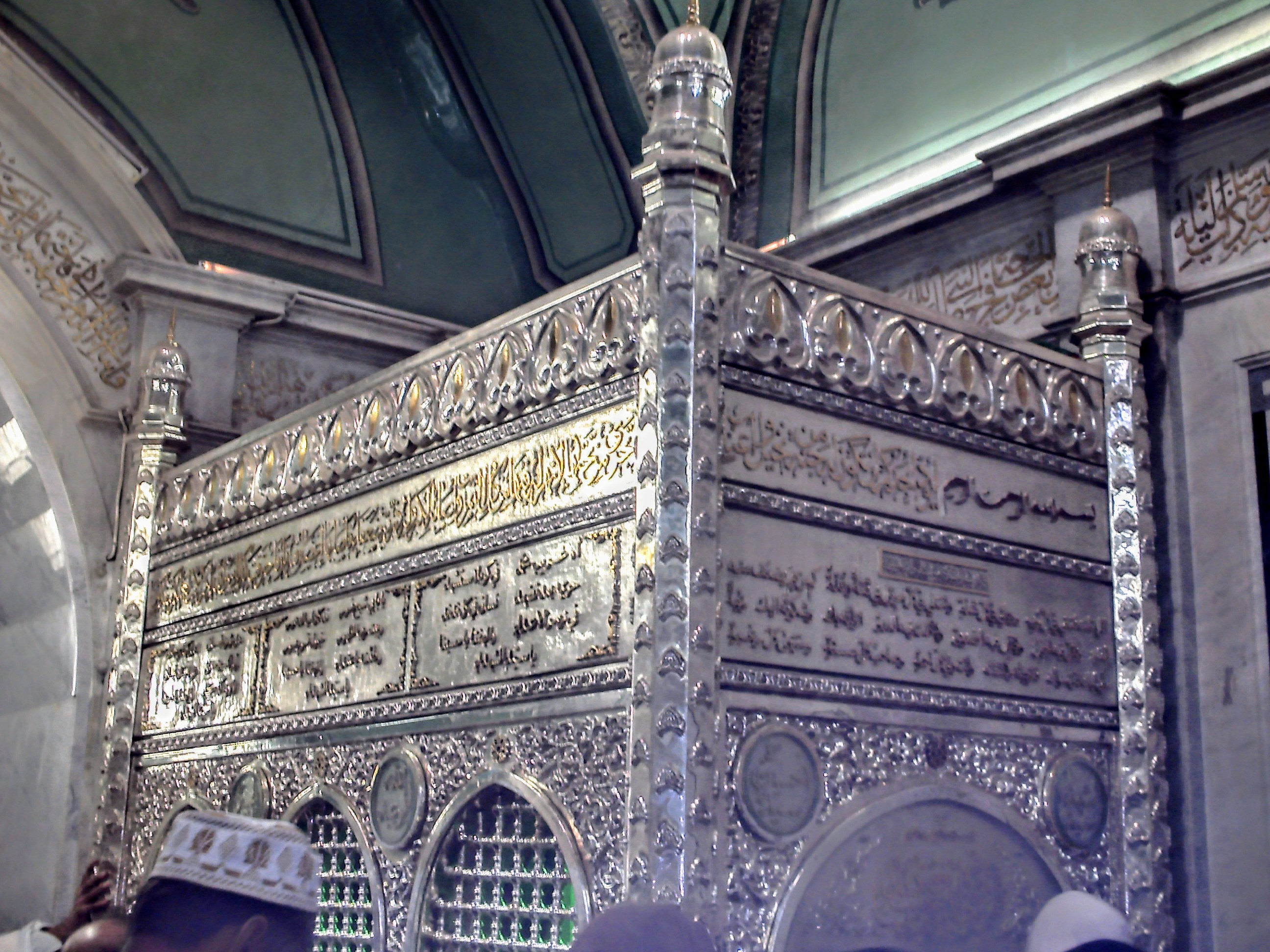 photo of place where Imam Husain 's Head was buried just after karbala battle in the courtyard of Yezid mahal in sham Damascus,syria,the present silver enclosure was built by dawoodi bohra dai